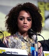 Nathalie Emmanuel speaking at the 2016 San Diego Comic Con International, for "Game of Thrones", at the San Diego Convention Center in San Diego, California.